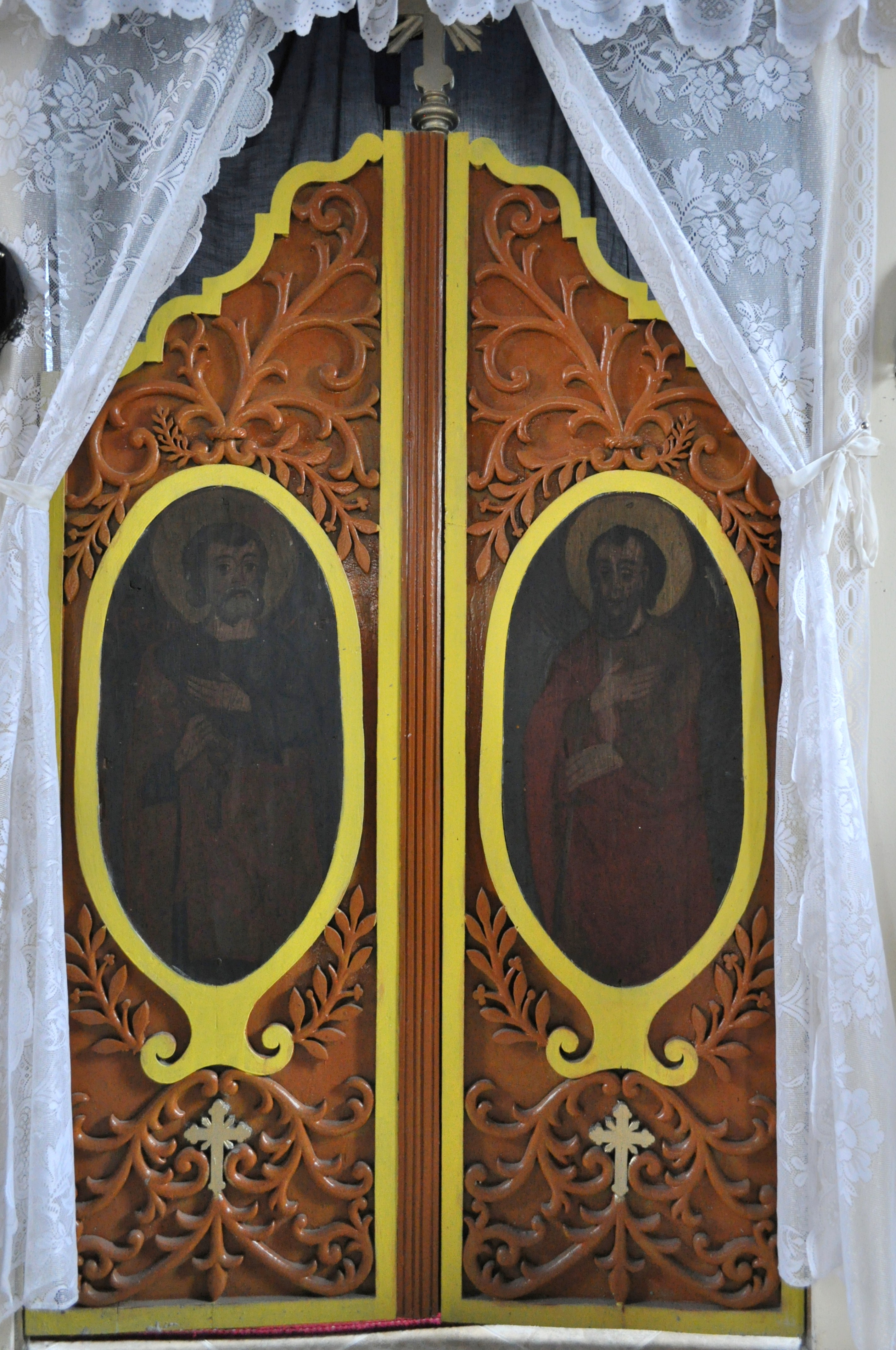 Wooden church in Baia, Arad county, Romania